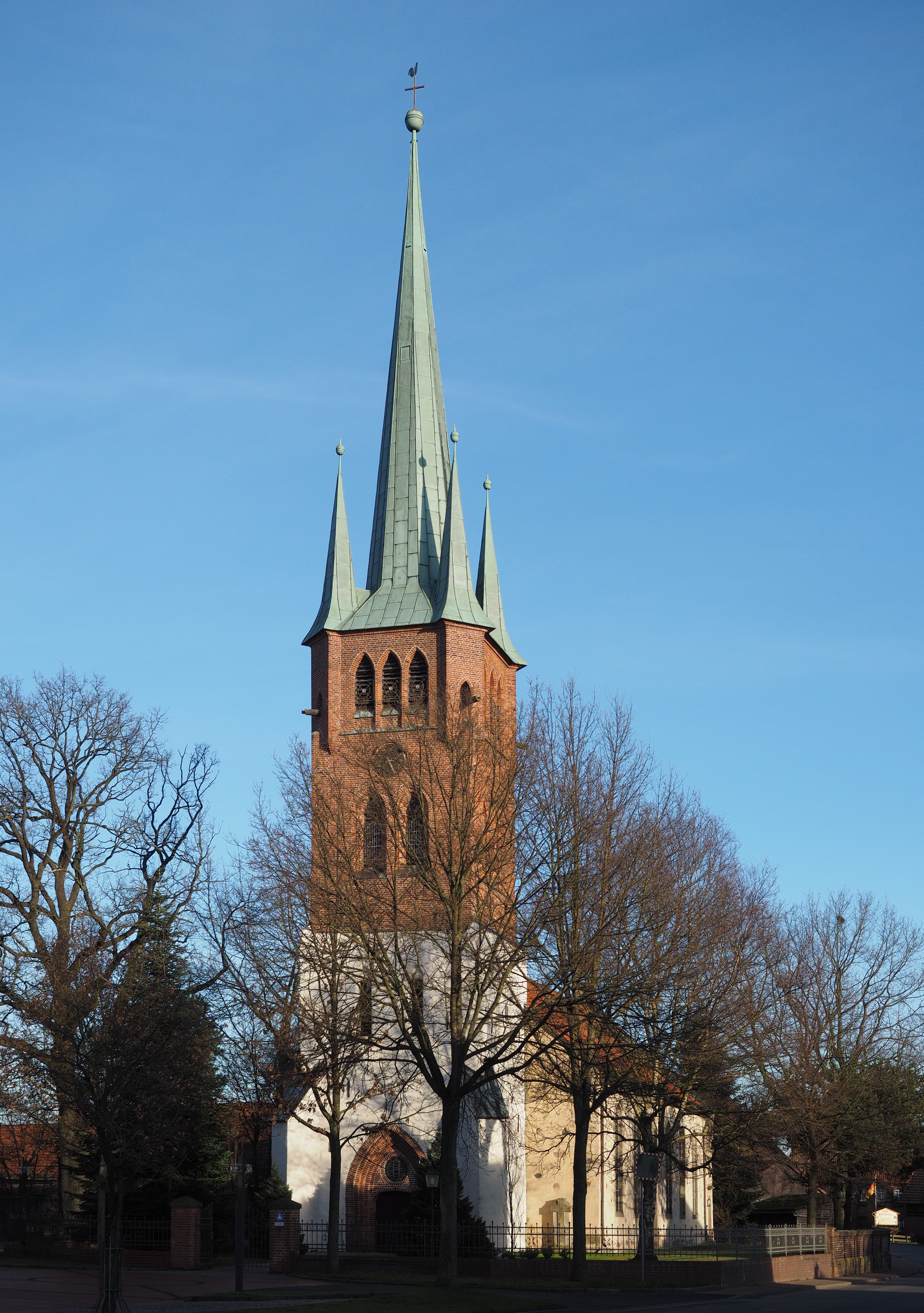 St Nicolai and Catherine Church, Wahrenholz, Germany